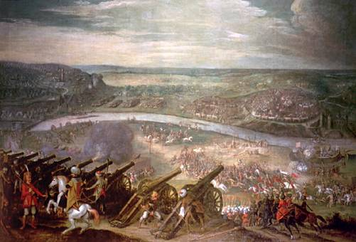 The Siege of Vienna, 1529